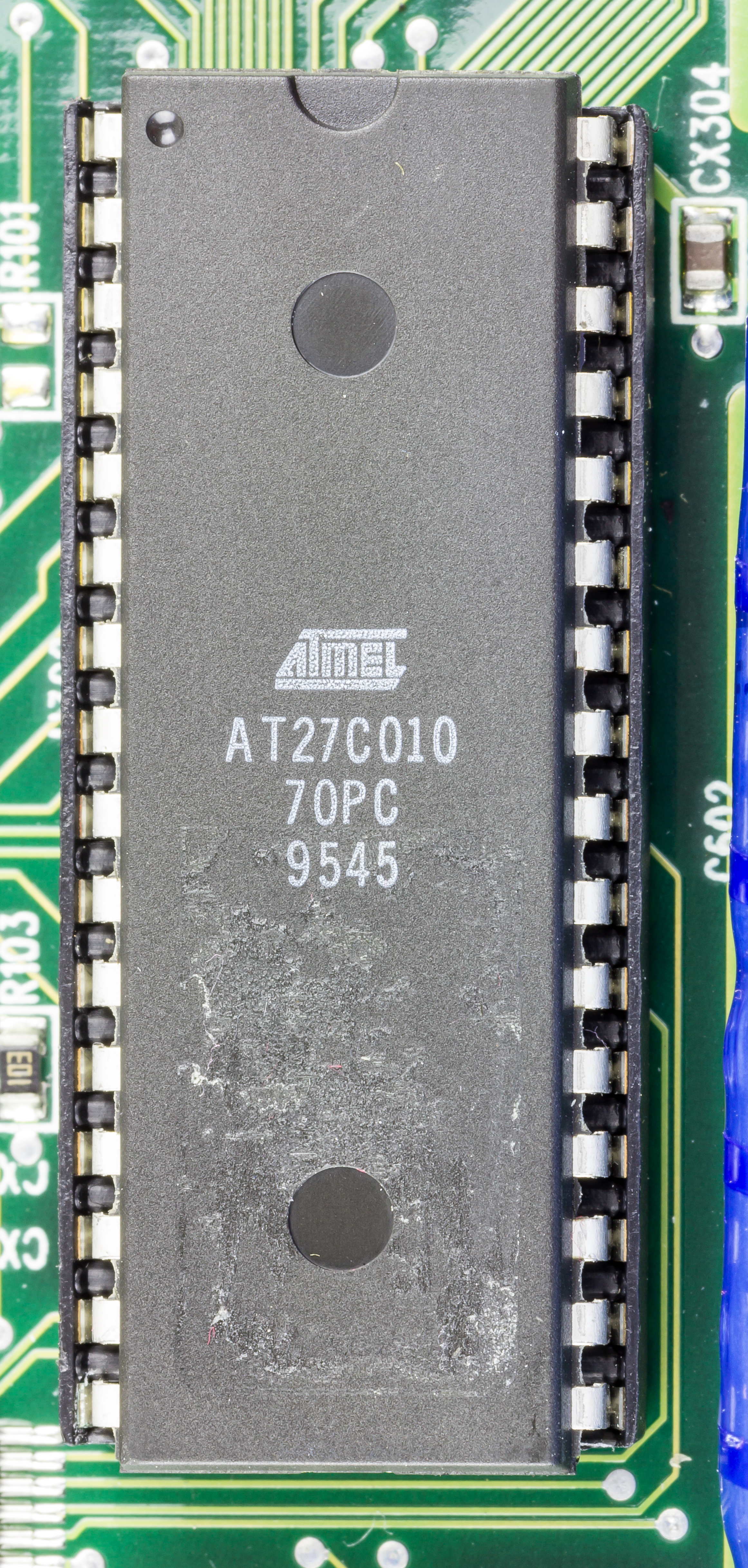 Dr. Neuhaus, Smarty 28.8 TI - Atmel AT27C010 - 1Mb (128K x 8) One-time Programmable, Read-only Memory (OTP EPROM)